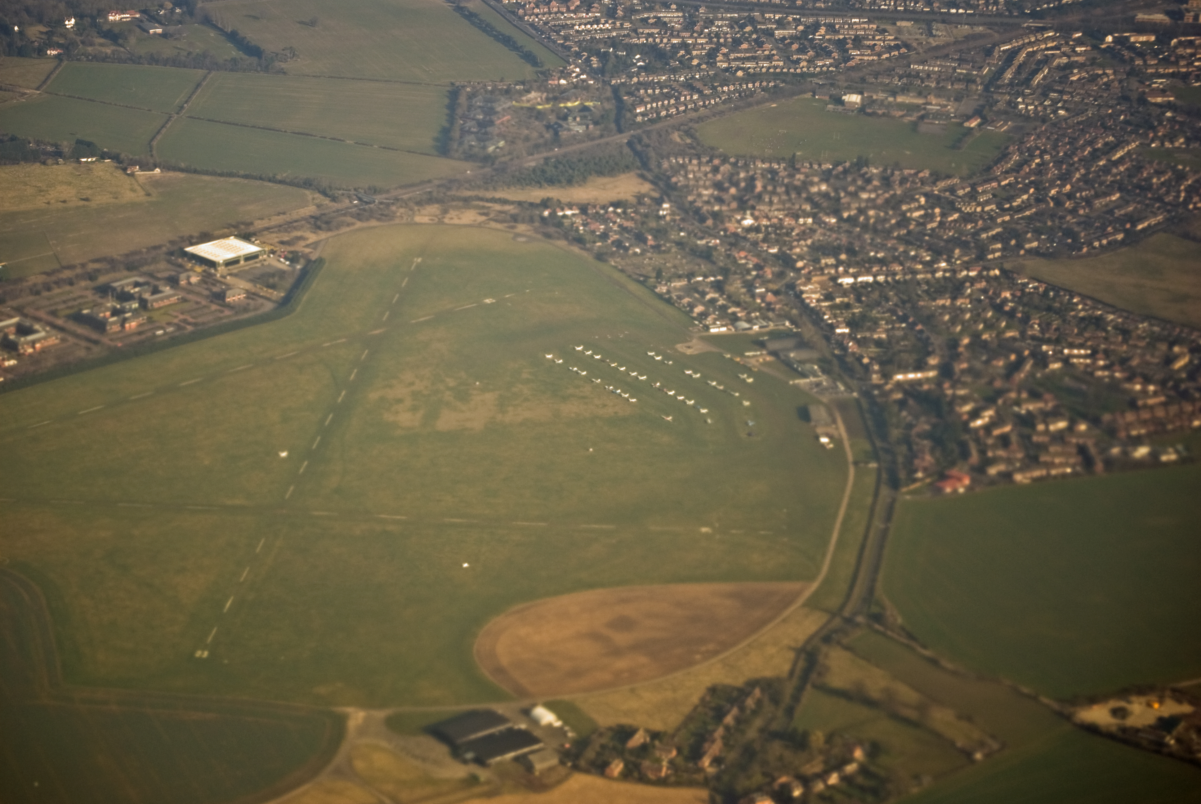 An aerial view of White Waltham Airfield in 2008.